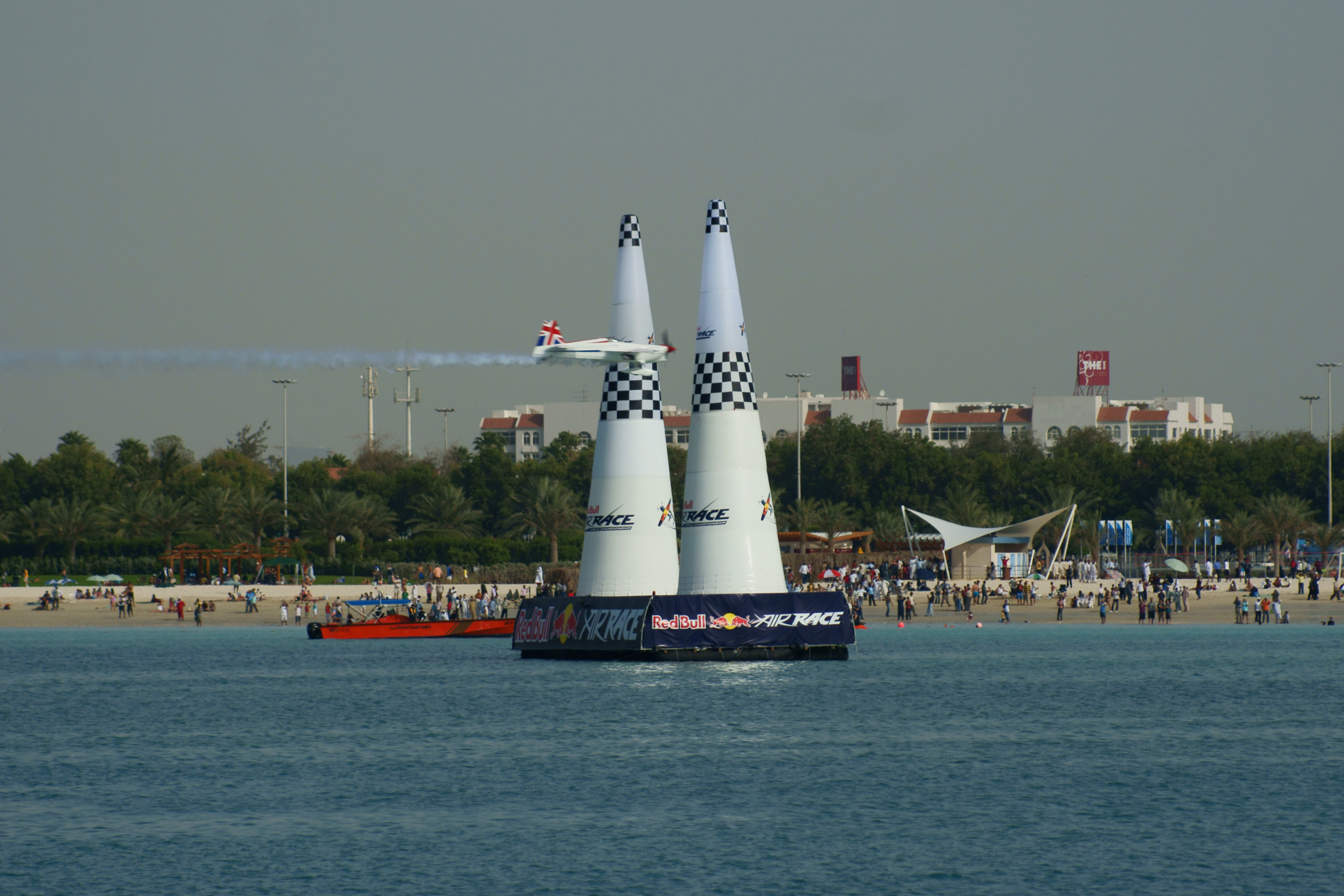 Paul Bonhomme at the Red Bull Airrace 2010 in Abu Dhabi.